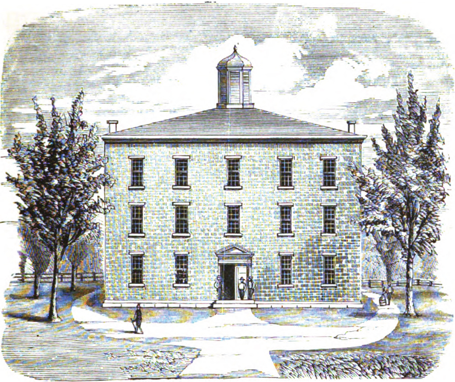 The first Kentucky state capitol building (destroyed by fire November, 25, 1813)